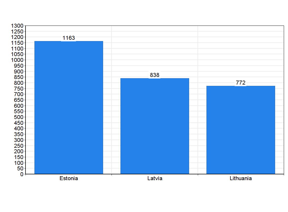 Average monthly gross salaries in Estonia, Latvia and Lithuania. Time period: 2016, 2nd quarter. Sources